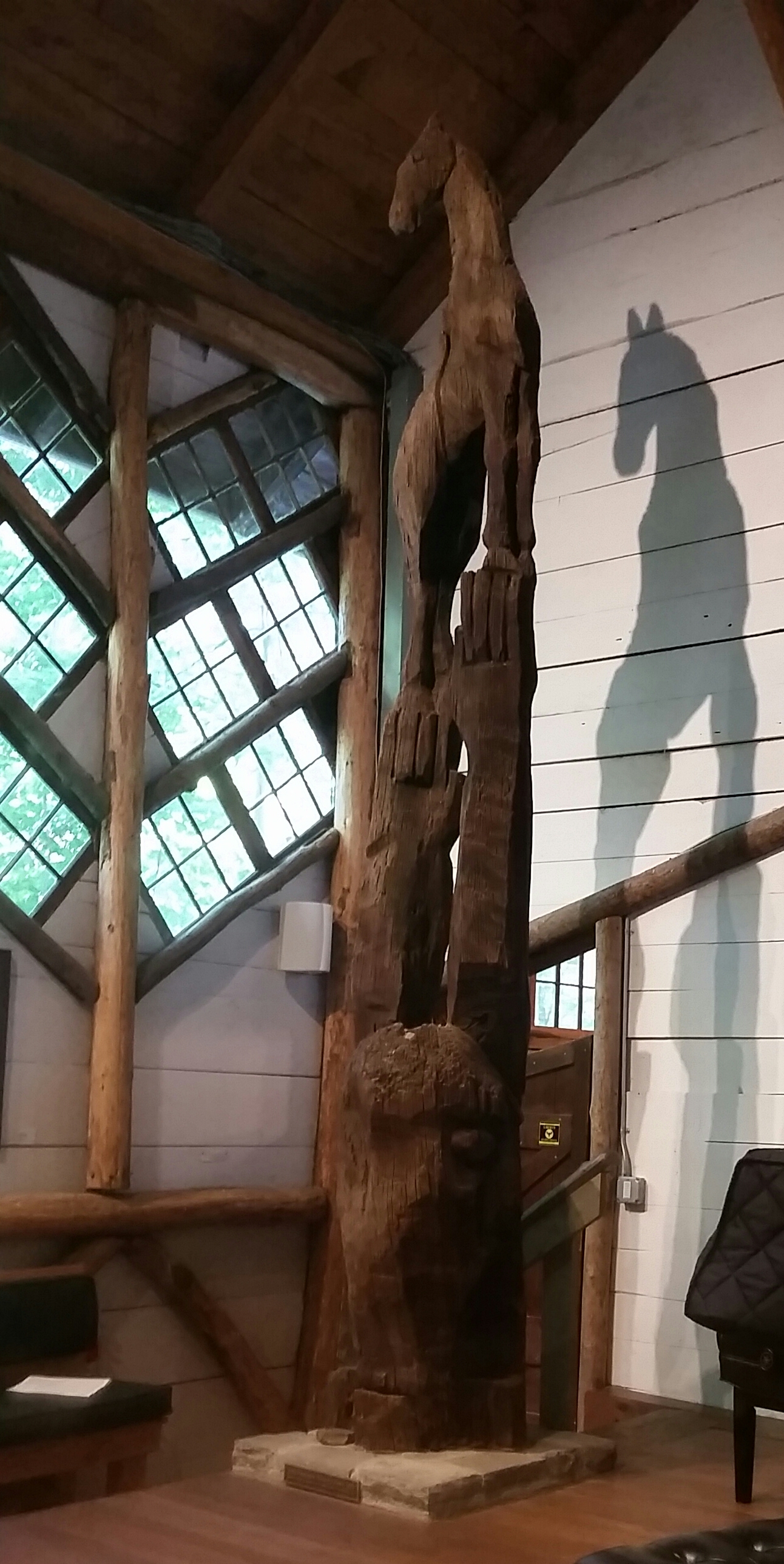 The Maverick Horse by John Bernard Flannagan at the Maverick Concert Hall.